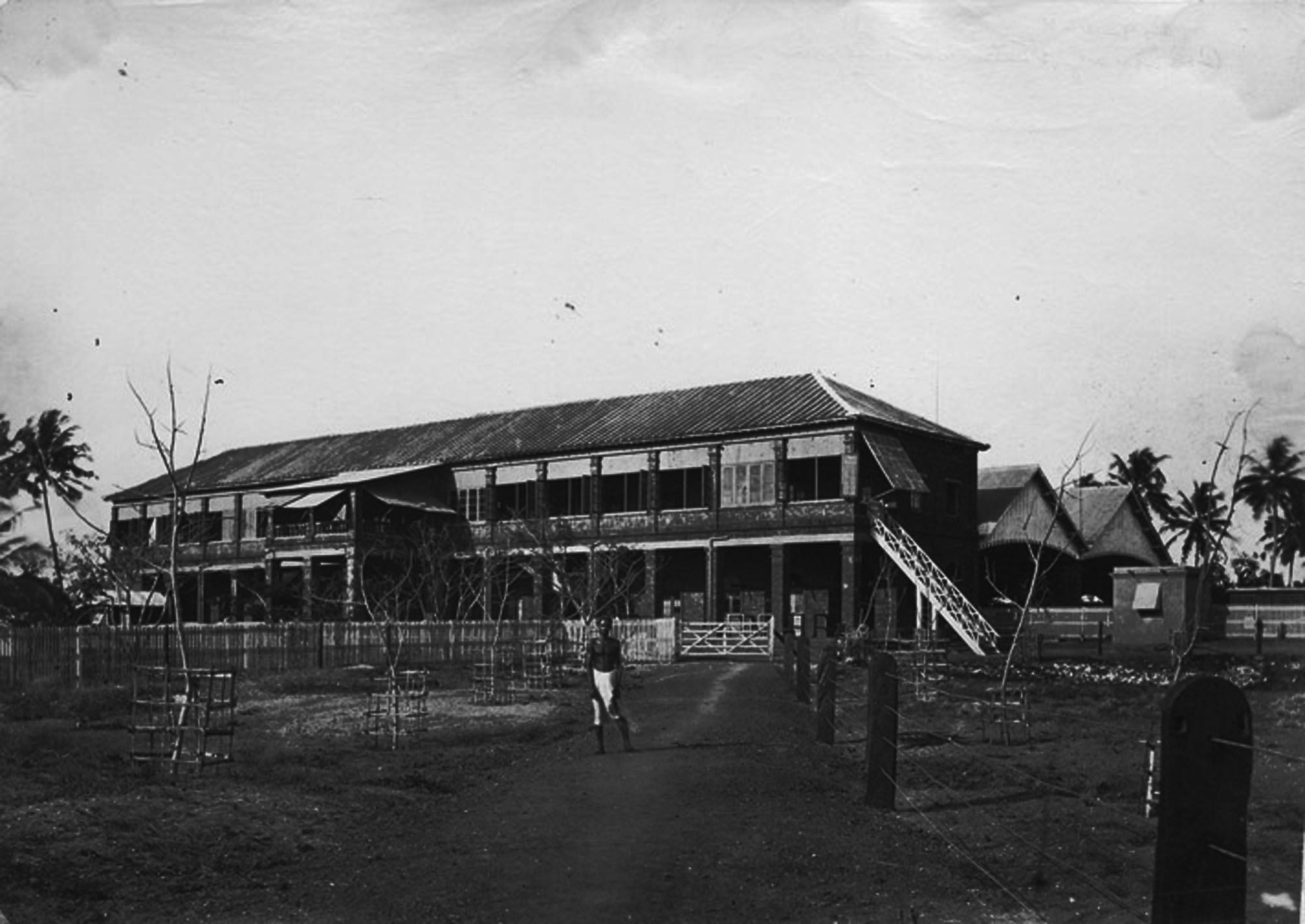 1. Photograph of the Beypore Railway Station at Chaliyam, Malabar from the 'Bellew Collection: Photograph album of Surgeon-General Henry Walter Bellew' taken by an unknown photographer in the 1860s. Chaliyam, a few miles south of Calicut on the Kerala coast, was for a period the terminus of the Madras Railway on the west coast. This view shows a two-storeyed brick verandahed building with the roofs of the railway platforms visible in background. This image falls into the public domain as it was taken in India prior to 1 January 1951, and was not published in India after that date. It is in public domain in the United States as well as it was taken prior to 1 January 1951.